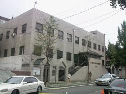 Embassy of Thailand in Seoul